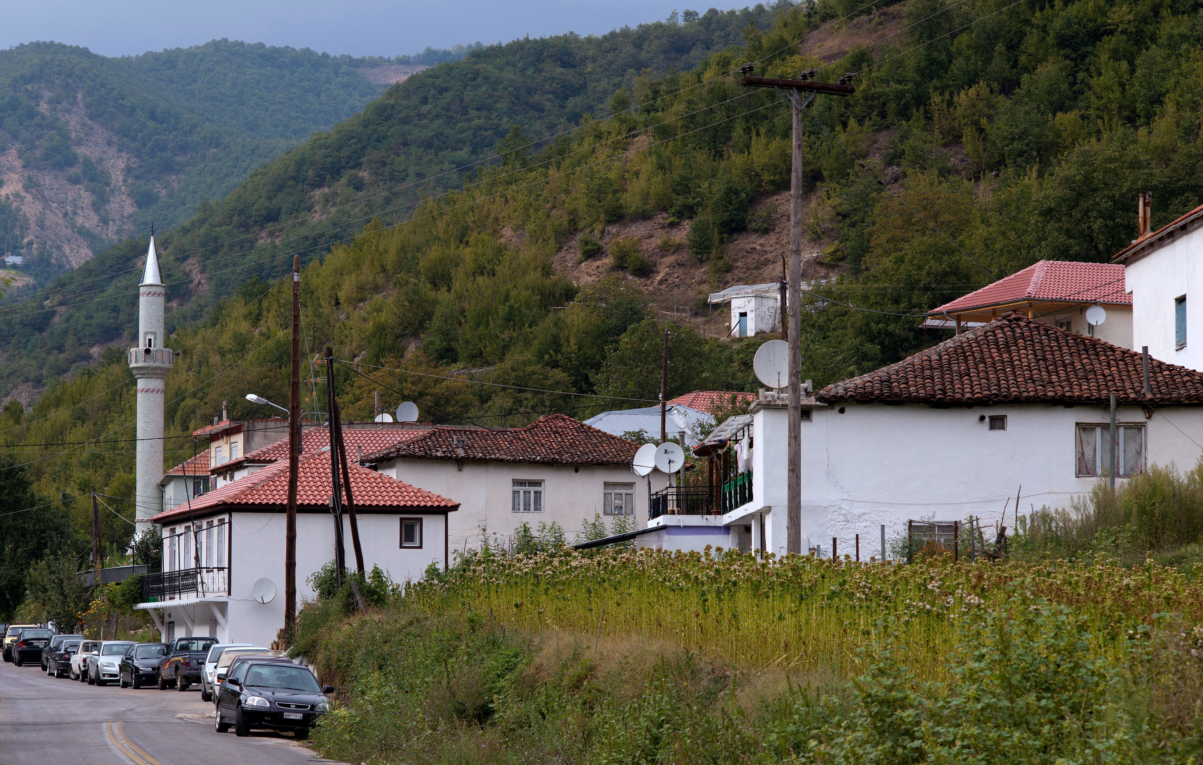 Meses Thermes village, Xanthi Prefecture, Thrace, Greece.